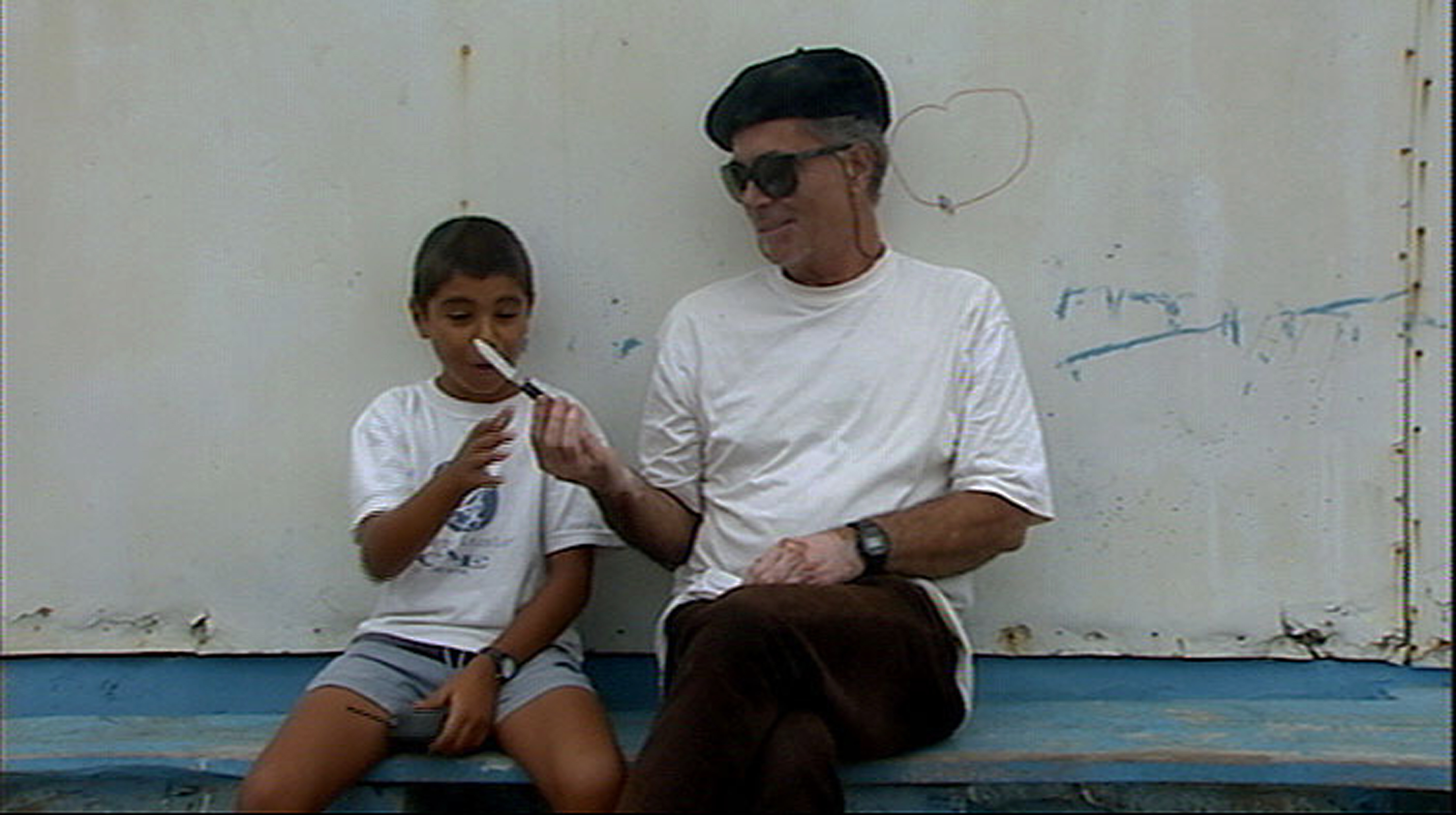 The hero offers Rudolfo a penknife